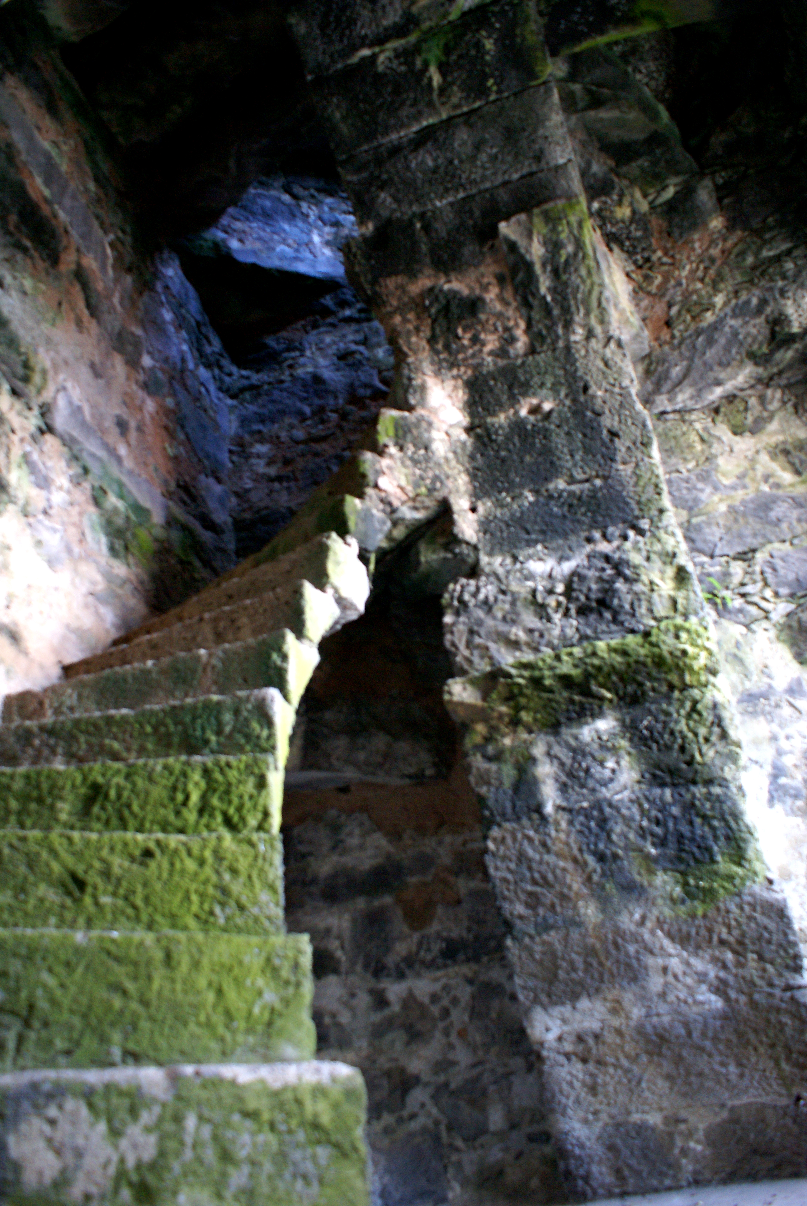 Old bell tower stairs in the Church of São Mateus, Urzelina, Velas, São Jorge (Azores), Portugal